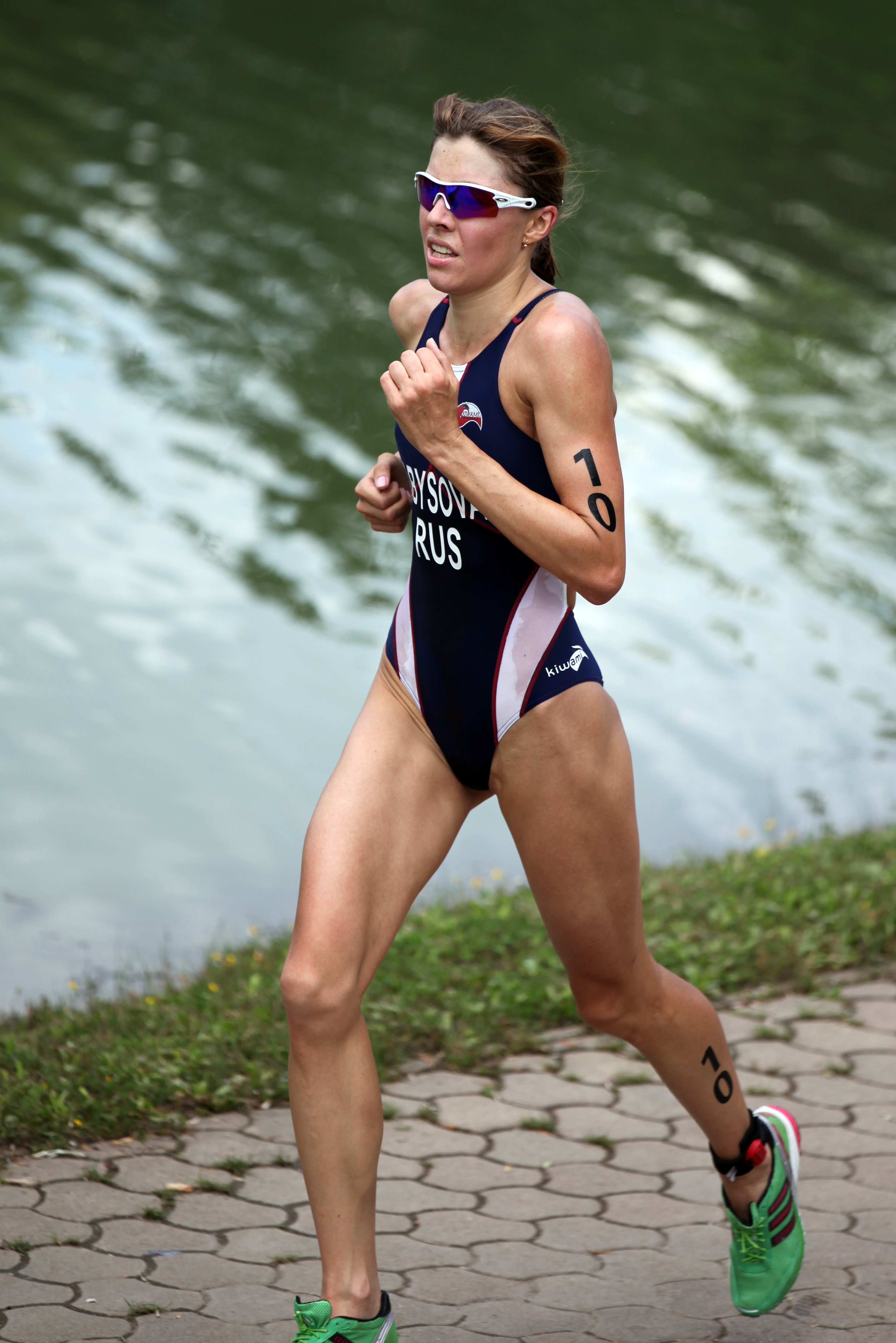 Irina Abysova (Ирина Алексеевна Абысова), silver medalist at the World Cup elite triathlon in Tiszaújváros, 2011.